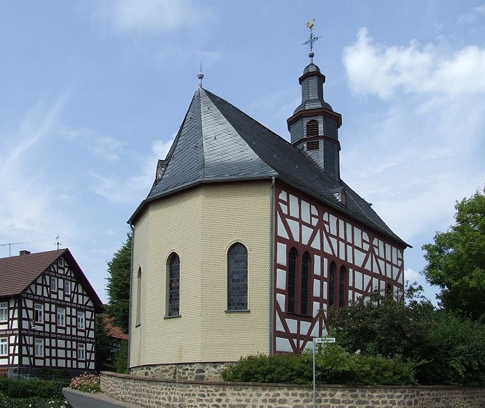 Stumpertenrod - Tudor church's largest timber-framed hall-church in Hessen